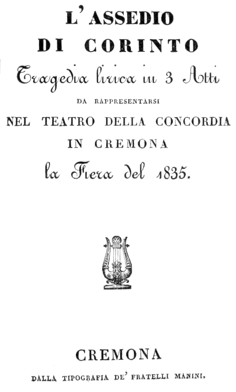 Gioachino Rossini - L'assedio di Corinto - Cremona 1835